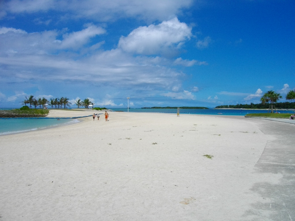 Okinawa Emerald Beach